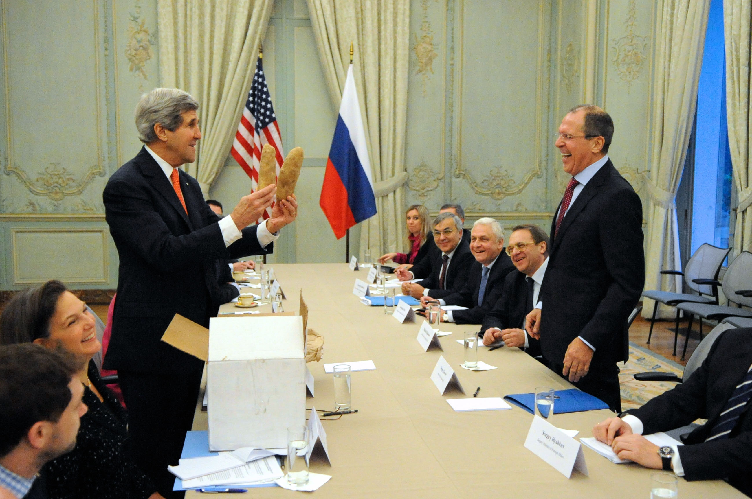 U.S. Secretary of State John Kerry shows Russian Foreign Minister Sergey Lavrov a pair of giant Idaho potatoes -- once a subject of discussion between them -- before a bilateral meeting with their respective staffs in Paris, France, on January 13, 2014. [State Department photo/ Public Domain]